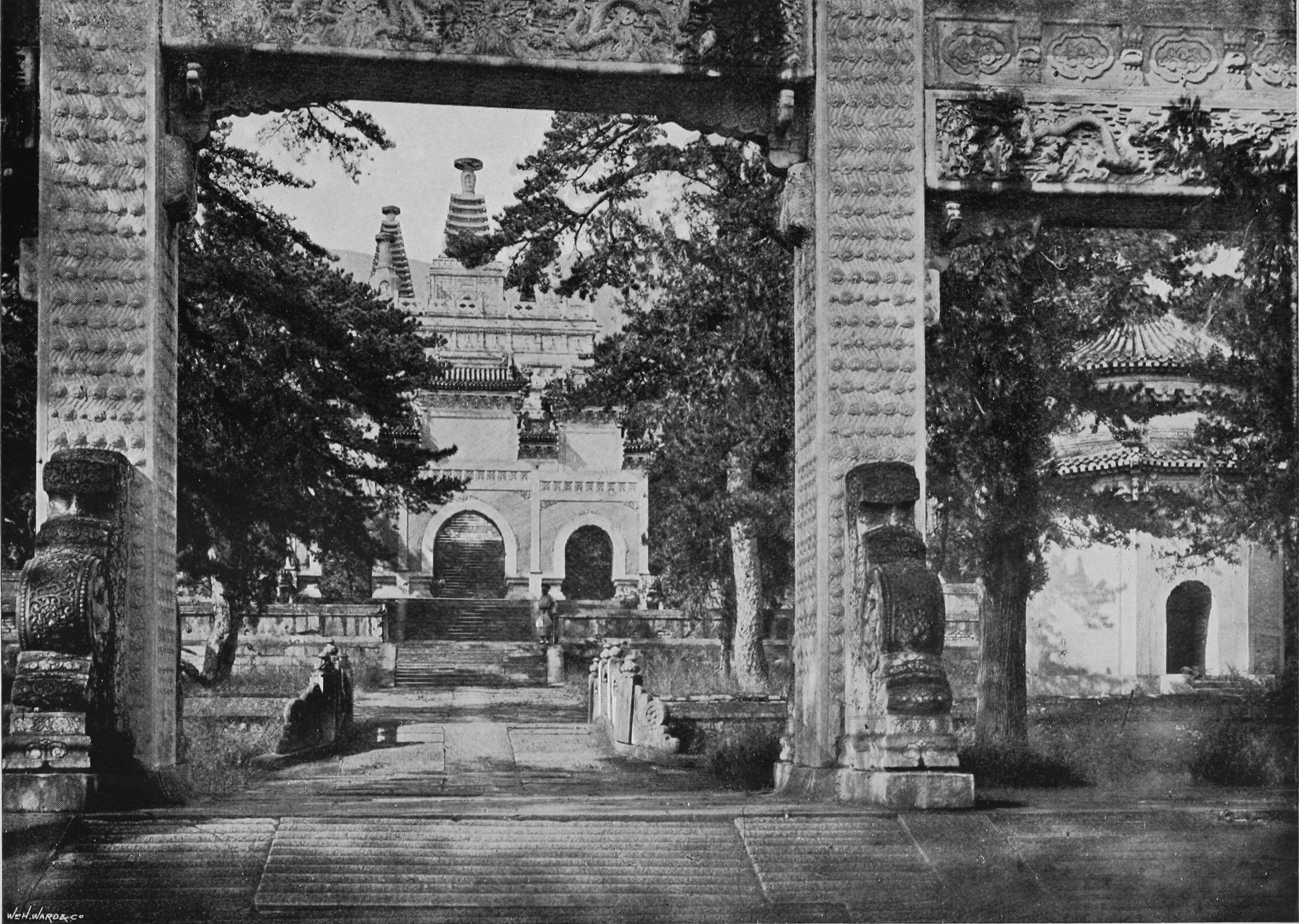 photo from Through China with a camera